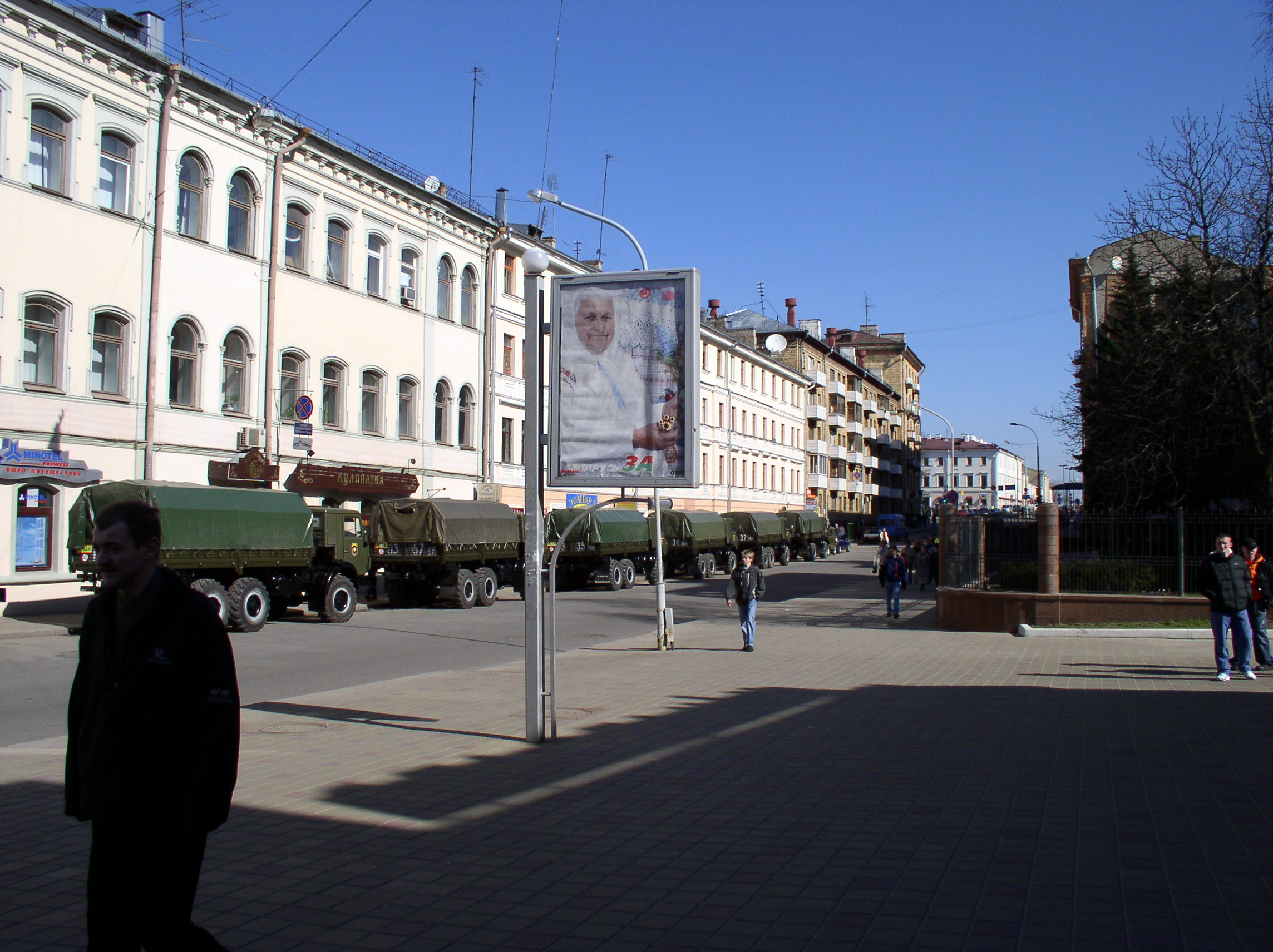 Militia, March 25, 2007. Minsk, Belarus.